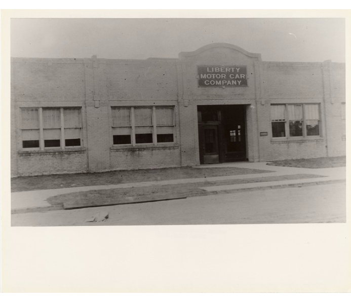 8x10 black and white photograph of the front exterior of the Liberty Motor Car Company